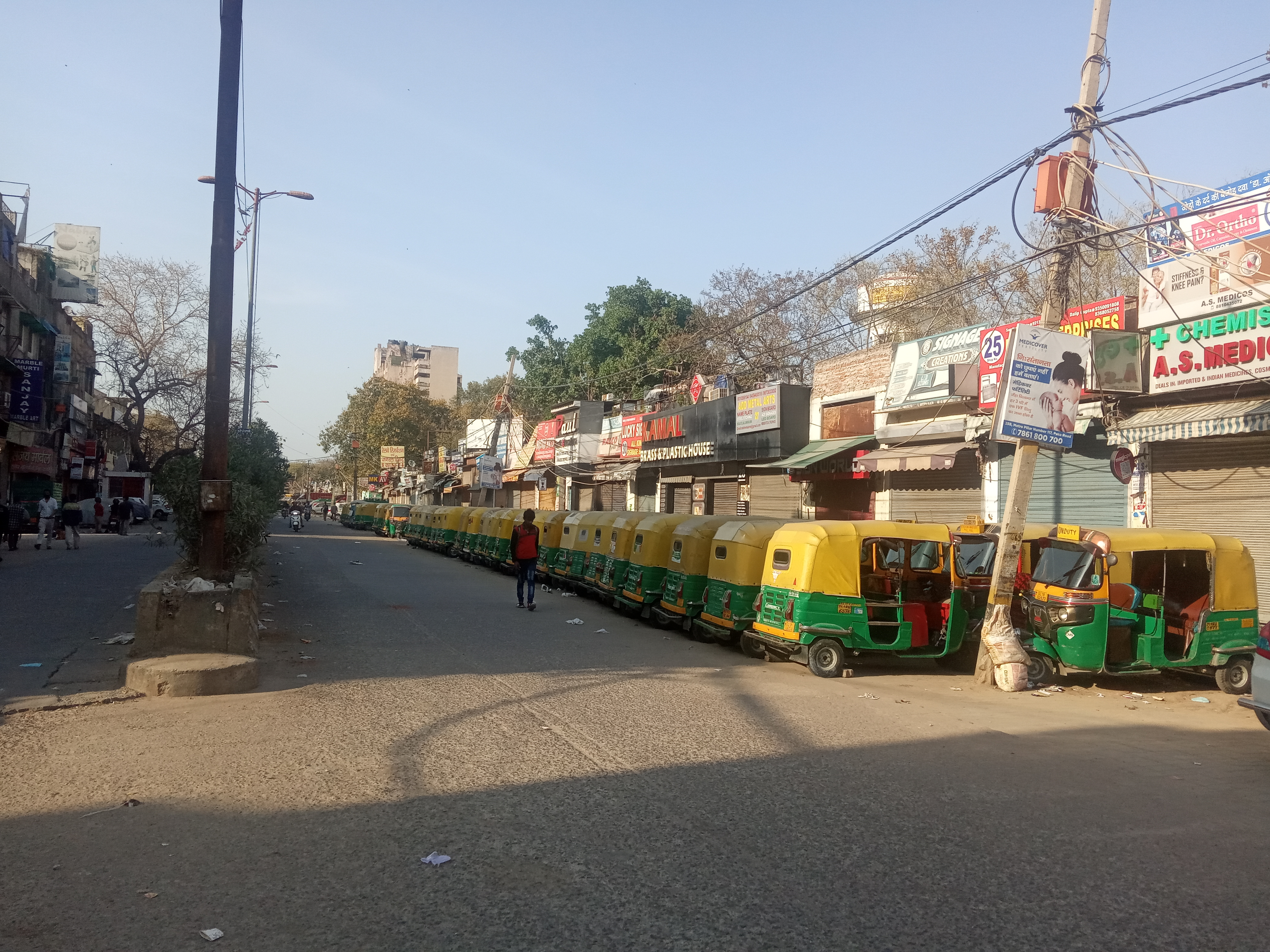 Effect of Janata lockdown and Socio eco impact during more than month lockdown